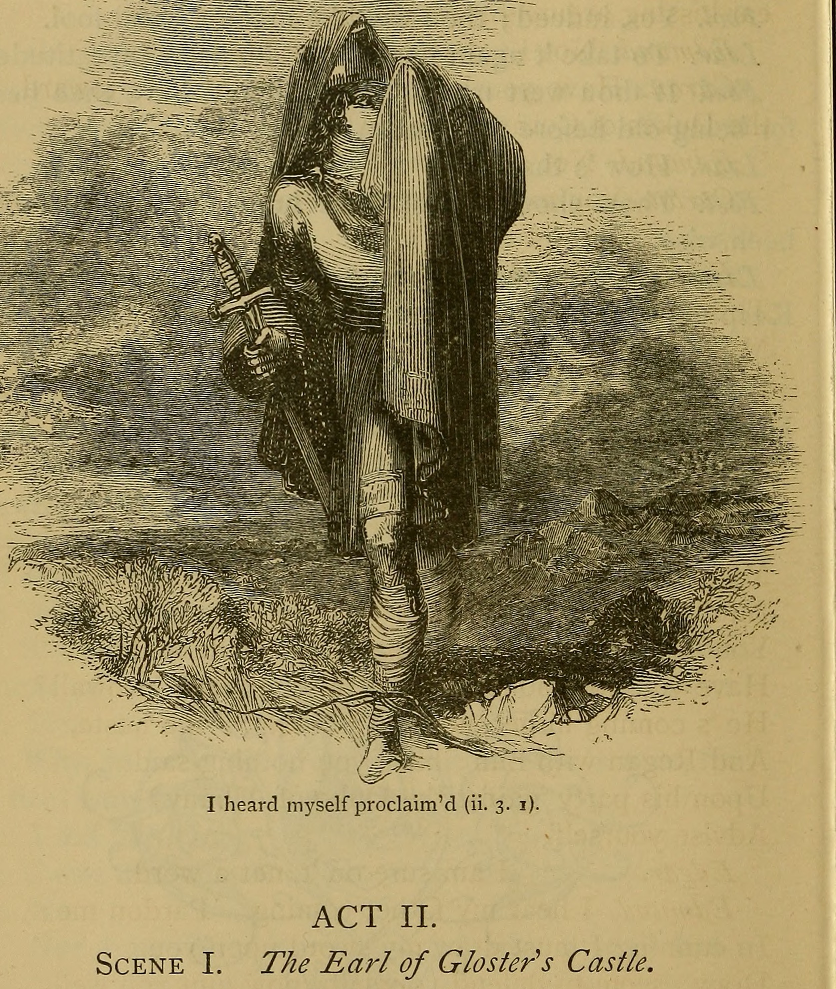 Title: Shakespeare's tragedy of King Lear Year: 1880 (1880s) Authors: Shakespeare, William, 1564-1616 Rolfe, W. J. (William James), 1827-1910, ed Subjects: Lear, King (Legendary character) Inheritance and succession Fathers and daughters Kings and rulers Aging parents Britons Publisher: New York, Harper & brothers Text Appearing Before Image: ' Text Appearing After Image: I heard myself proclaimd (ii. 3. 1). ACT II. Scene I. The Earl of Glosters Castle.Enter Edmund and Curan, meeting. Edmund. Save thee, Curan. Curan. And you, sir. I have been with your father, andgiven him notice that the Duke of Cornwall and Regan hisduchess will be here with him this night. ACT IT. SCENE I. 73 Edmund. How comes that? Curan. Nay, I know not. You have heard of the newsabroad-; I mean the whispered ones, for they are yet butear-kissing arguments? Edmund. Not I; pray you, what are they ? Curan. Have you heard of no likely wars toward, twixtthe Dukes of Cornwall and Albany? n Edmund. Not a word. Curan. You may do then in time. Fare you well, sir. (Exit. Edmund. The duke be here to-night ? The better! best!This weaves itself perforce into my business.My father hath set guard to take my brother;And I have one thing, of a queasy question,Which I must act. Briefness and fortune, work !—Brother, a word; descend! Brother, I say ! Enter Edgar. My father watches ! O sir, fly th